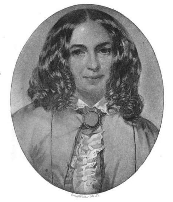 Elizabeth Barrett Browning Rome, 1858